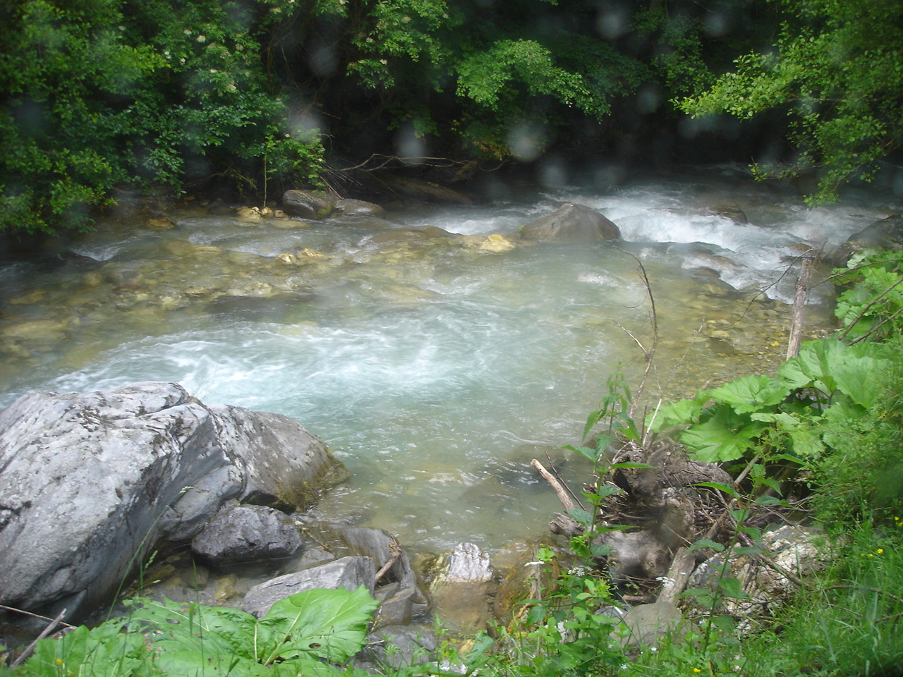 Ribnica River in Macedonia